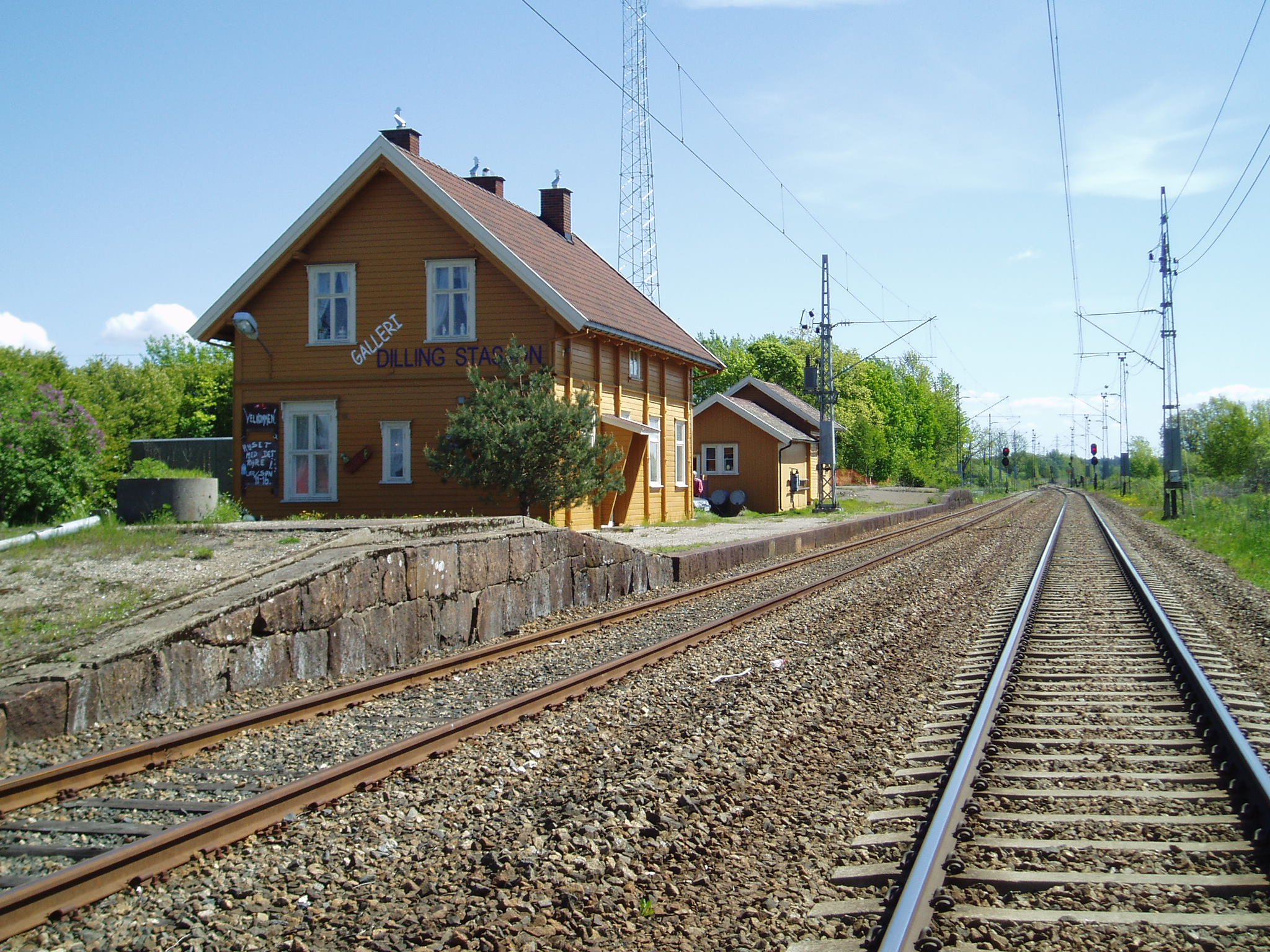 Dilling train station in Rygge, Norway. Photo by JohnM 07:48, 28 May 2006 (UTC).